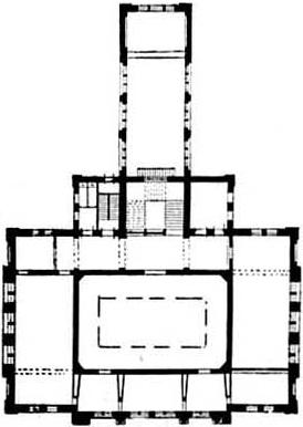 Kestner Museum, Hannover, plan.